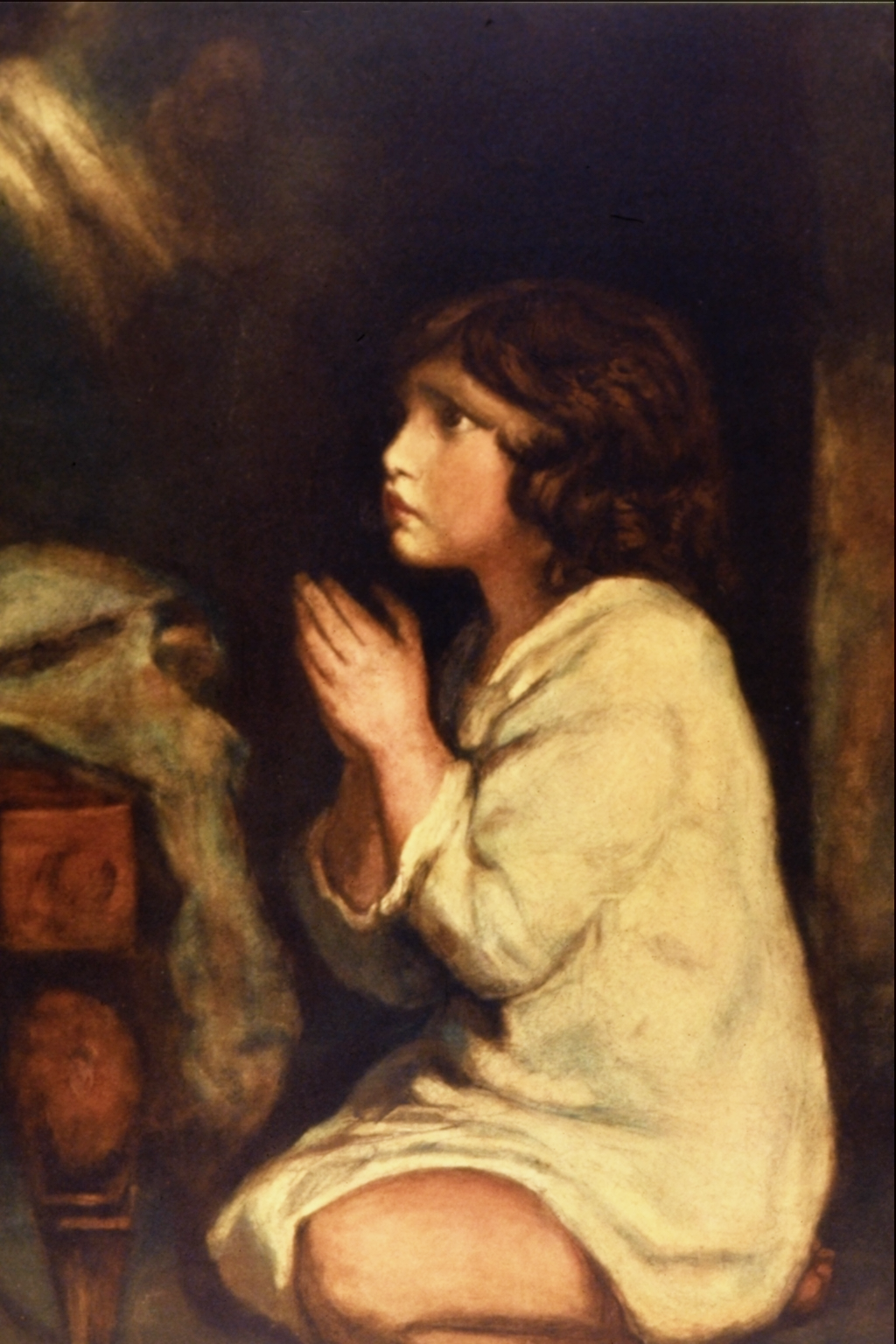 The Infant Samuel at Prayer